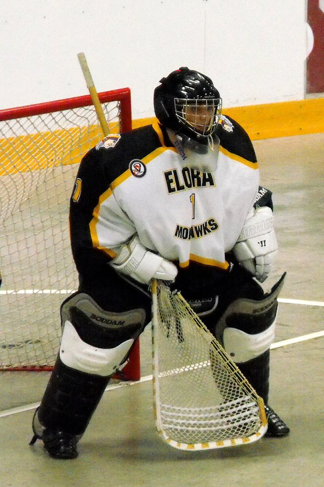 These images of Ontario Junior B Lacrosse Action action during the 2014 season are taken by Devan Mighton.